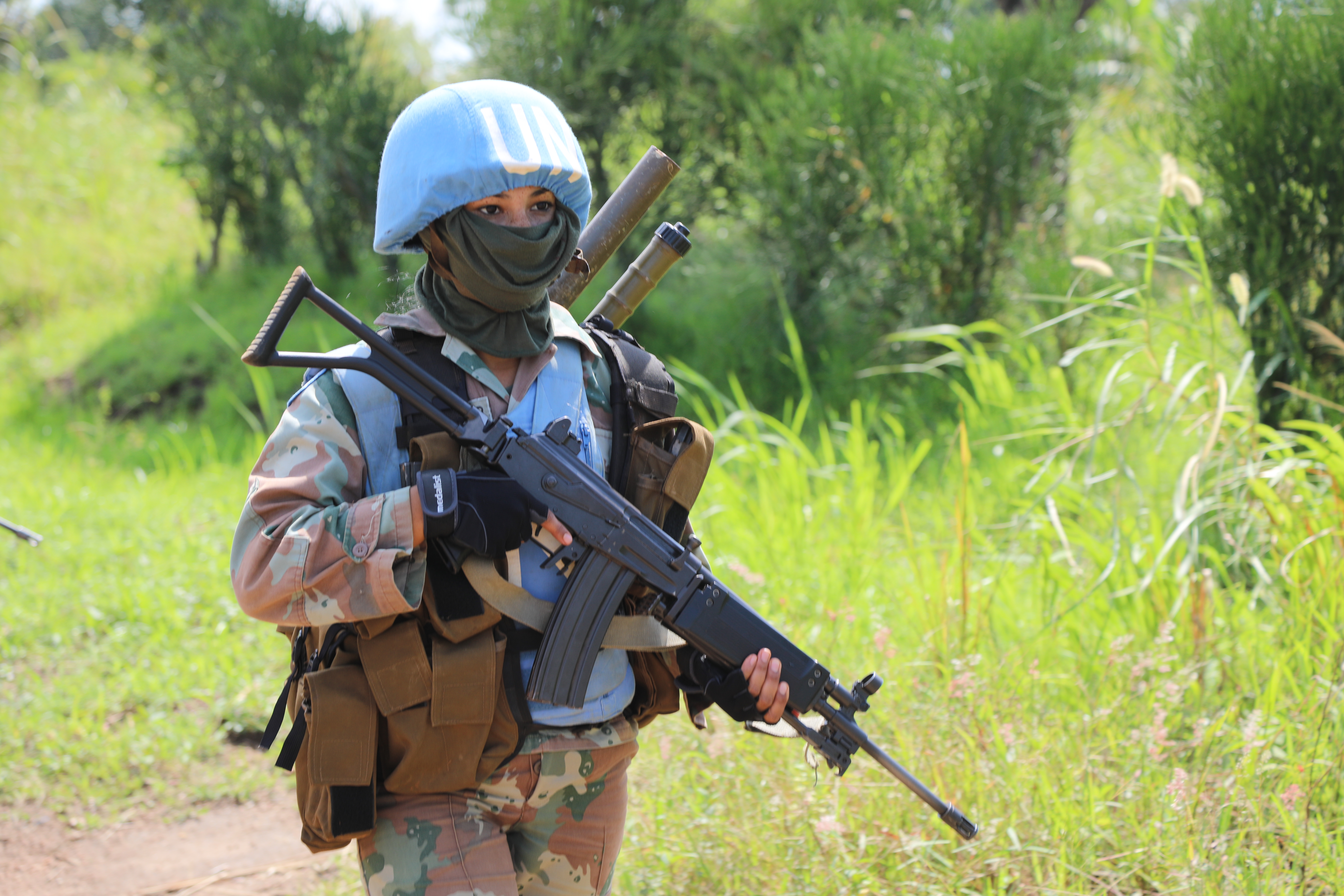 Female engagement patrol conducted from Mavivi to Muzambayi in Beni by Female combatants of South African Contingent of COB Mavivi, MONUSCO on 07 March 2018. The task was to conduct visibility patrol using vehicles and on foot, in order to gather information regarding the security situation in Muzambayi village The team composed of one officer, 5 noncommissioned Officers and twenty four soldiers using three Armored Personnel Carriers (APCs )and one ambulance. Photo MONUSCO/Michael Ali